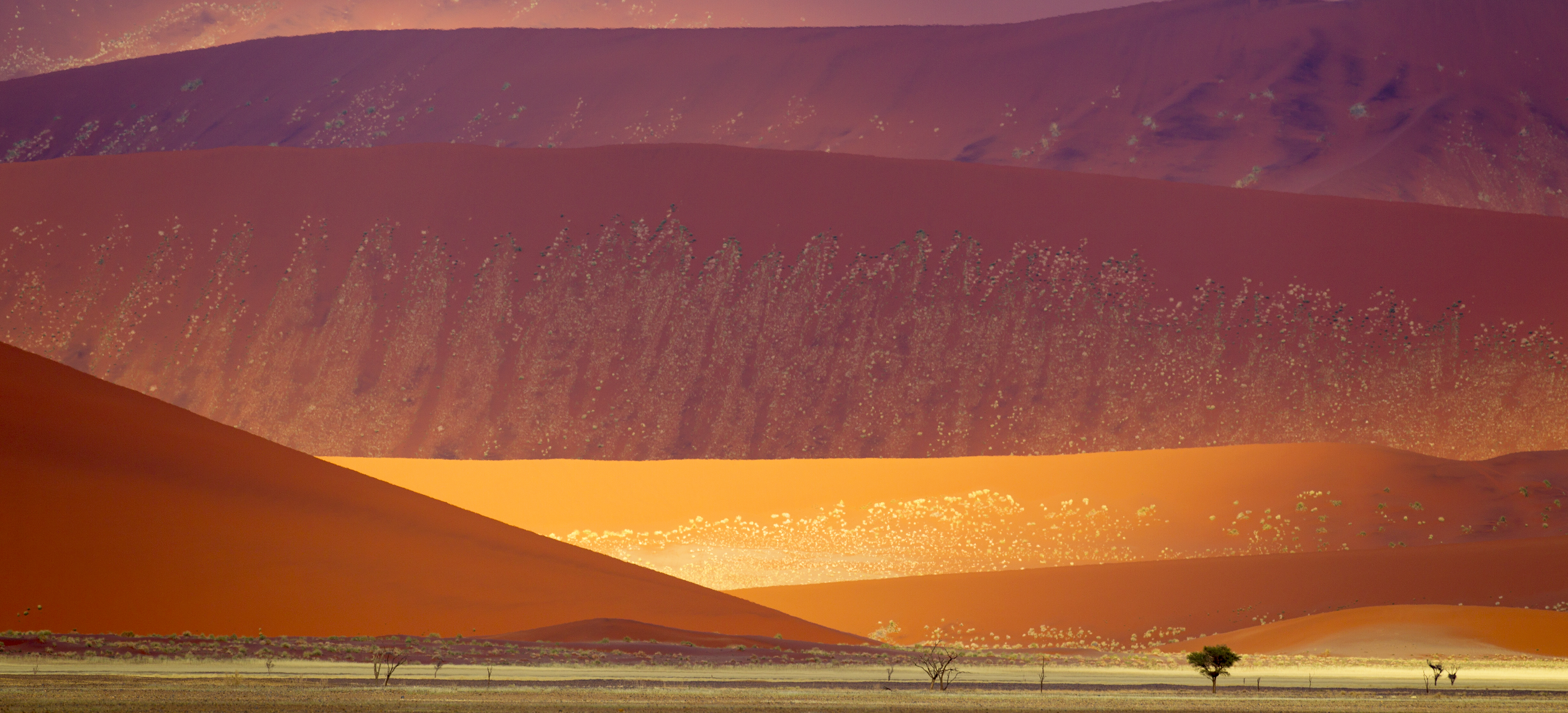 Sand dunes in the Namib-Naukluft National Park, Namibia. Older dunes are reddish and larger, newer dunes are yellow-brown.